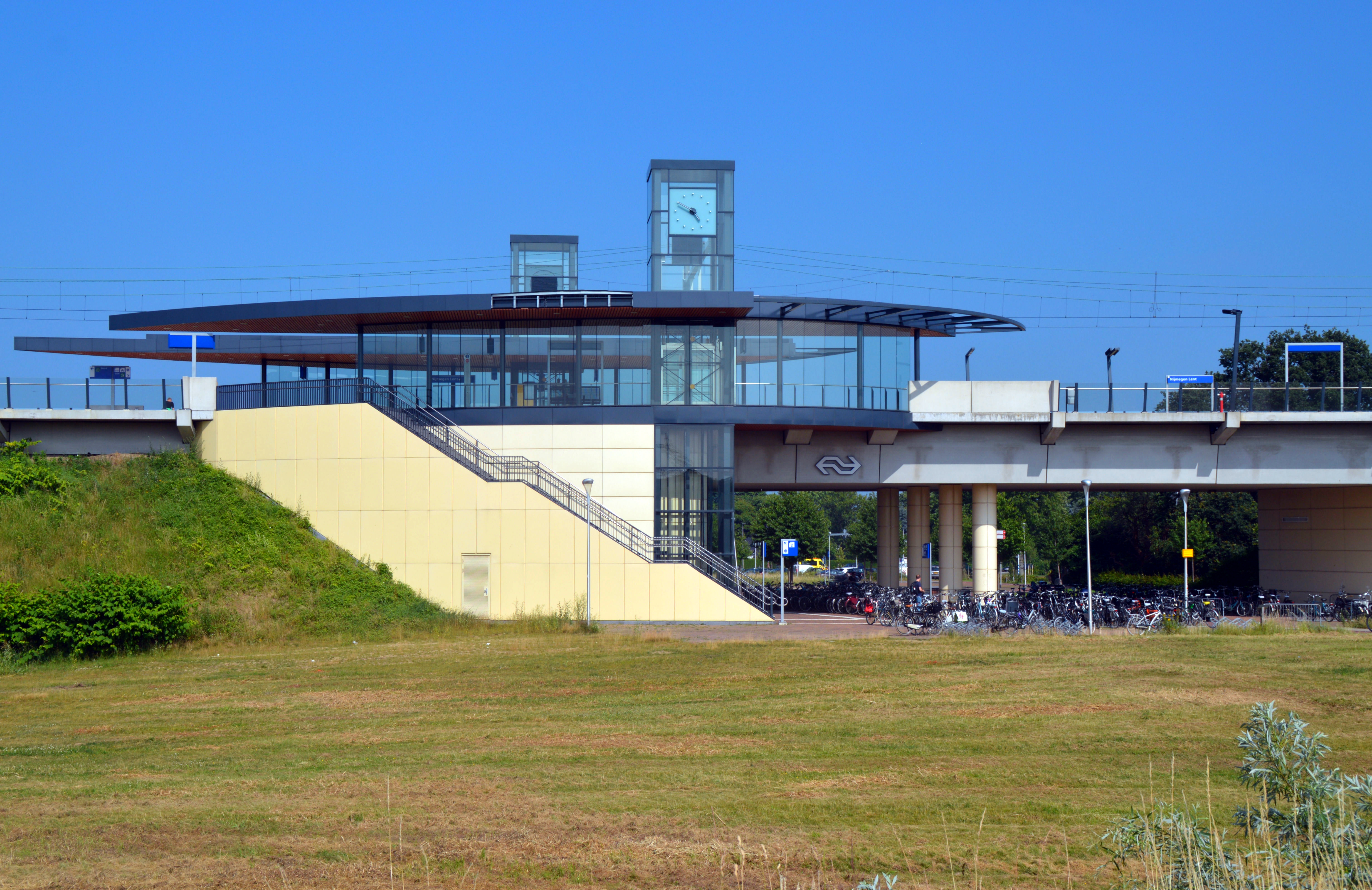 Station Nijmegen Lent, Nijmegen North